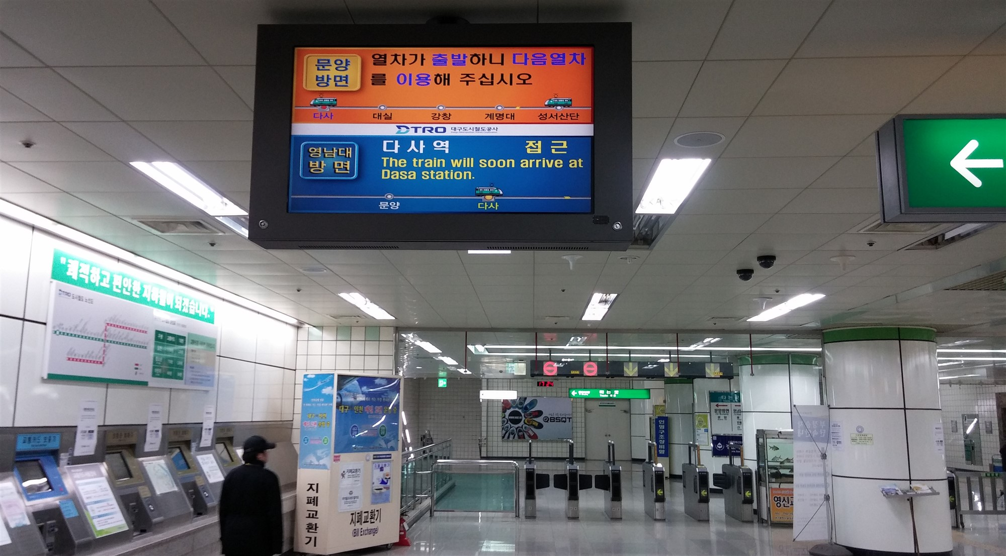 Interior of Dasa Station, west side of Daegu, South Korea